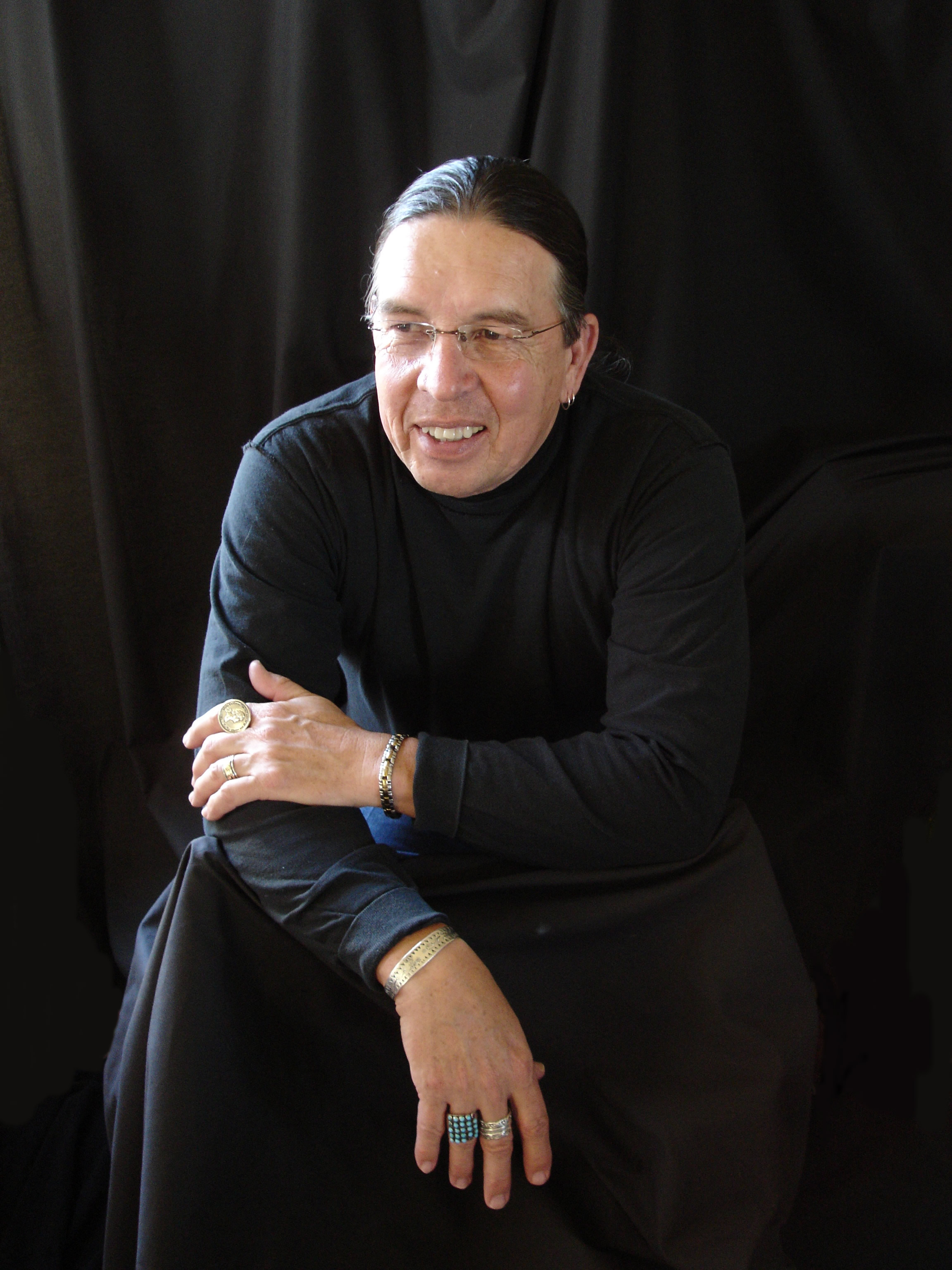 Native American Artist and Police Forensic Artist Harvey Pratt